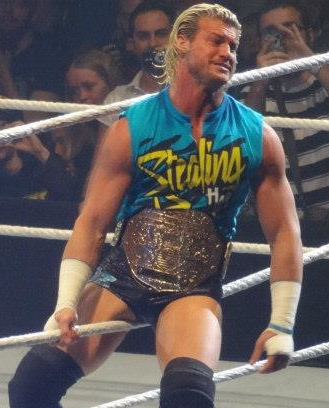 Dolph Ziggler